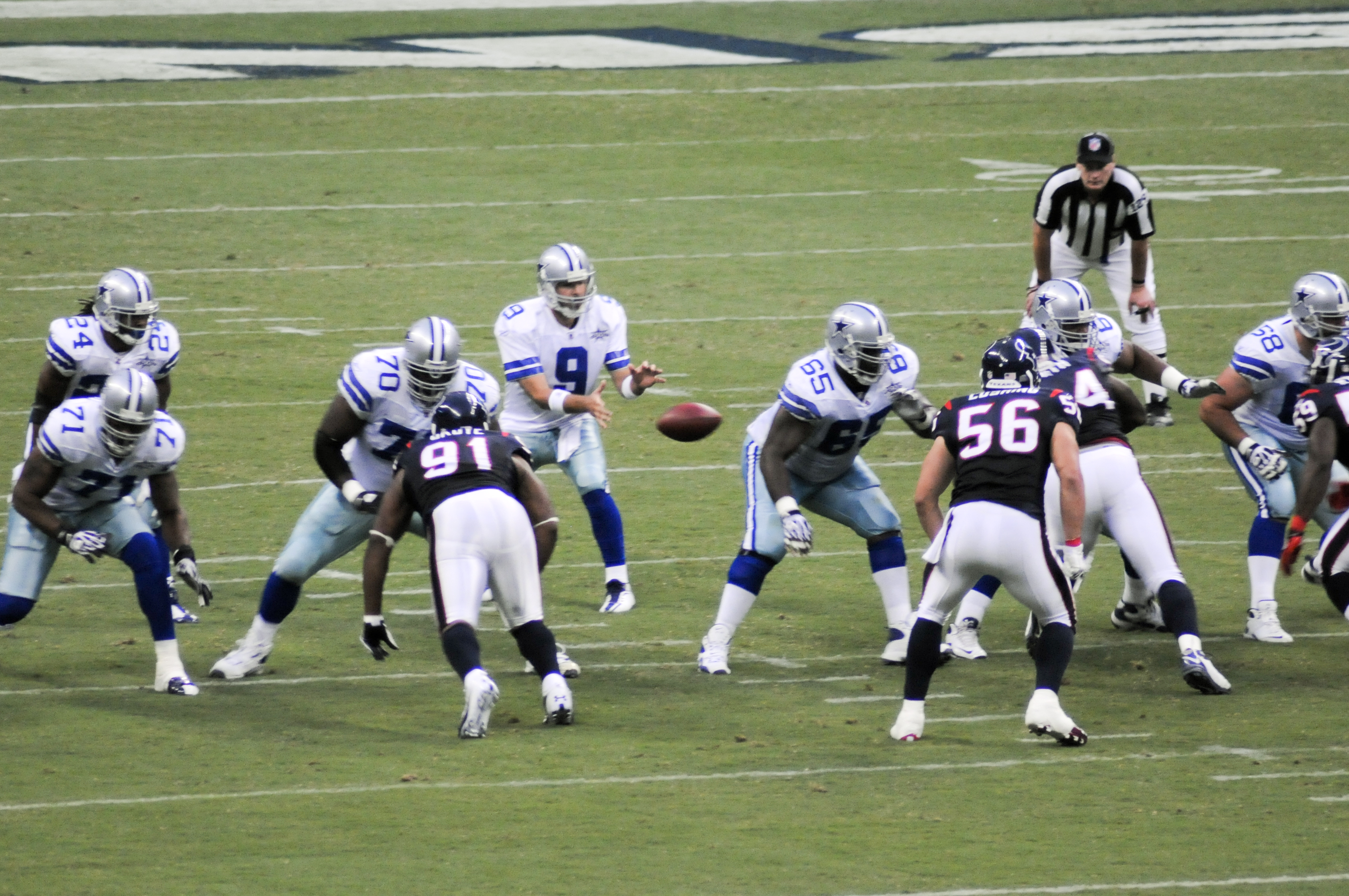 Tony Romo receiving a snap in the shotgun formation.